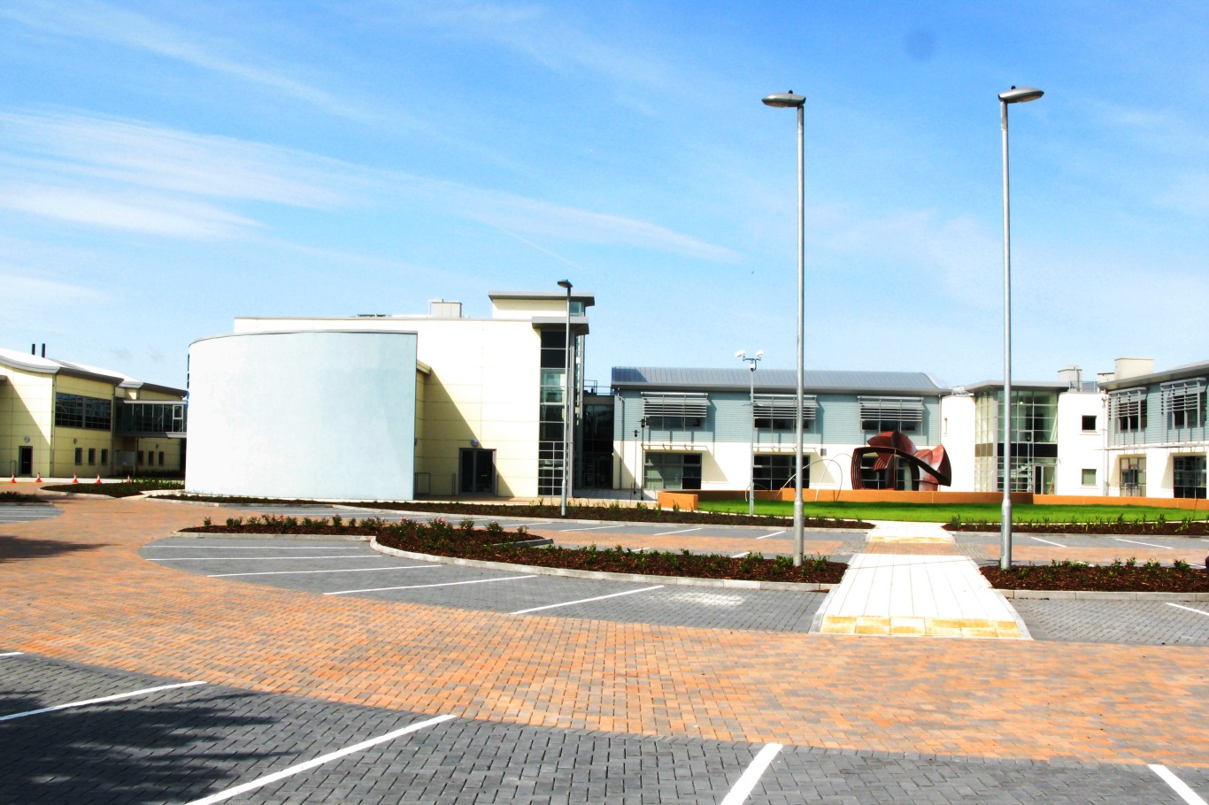 The University Campus of Weston College, Weston-super-Mare, North Somerset, England.